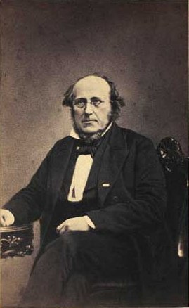 Schøller Parelius Vilhelm Birkedal (1809-1892), Danish priest